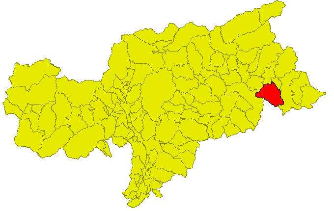 Location of Prags (Italy)